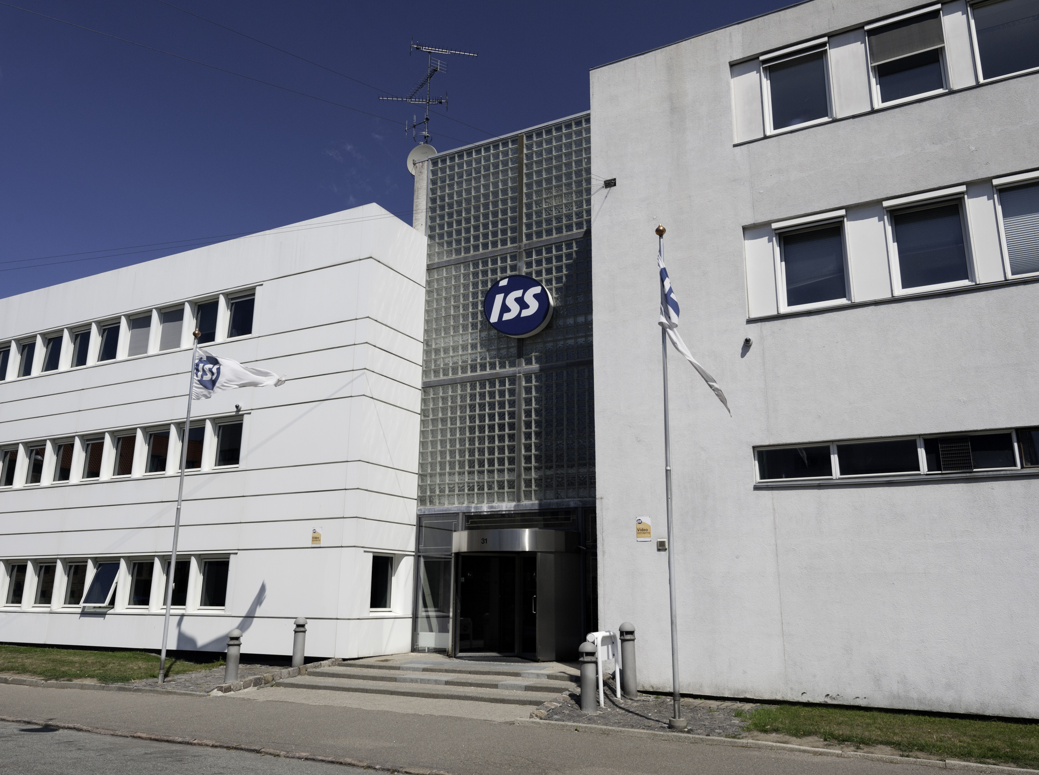 The headquarters of the company International Service System (ISS) in Denmark.